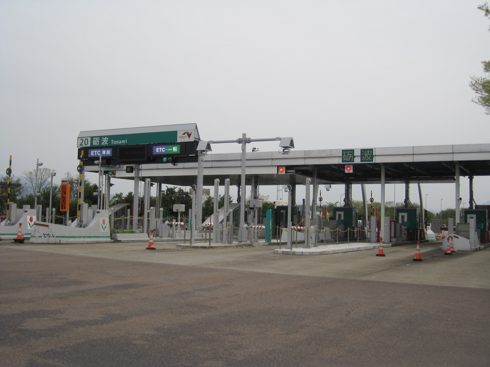 Tonami Interchange on the Hokuriku Expressway, in Toyama Prefecture, Japan